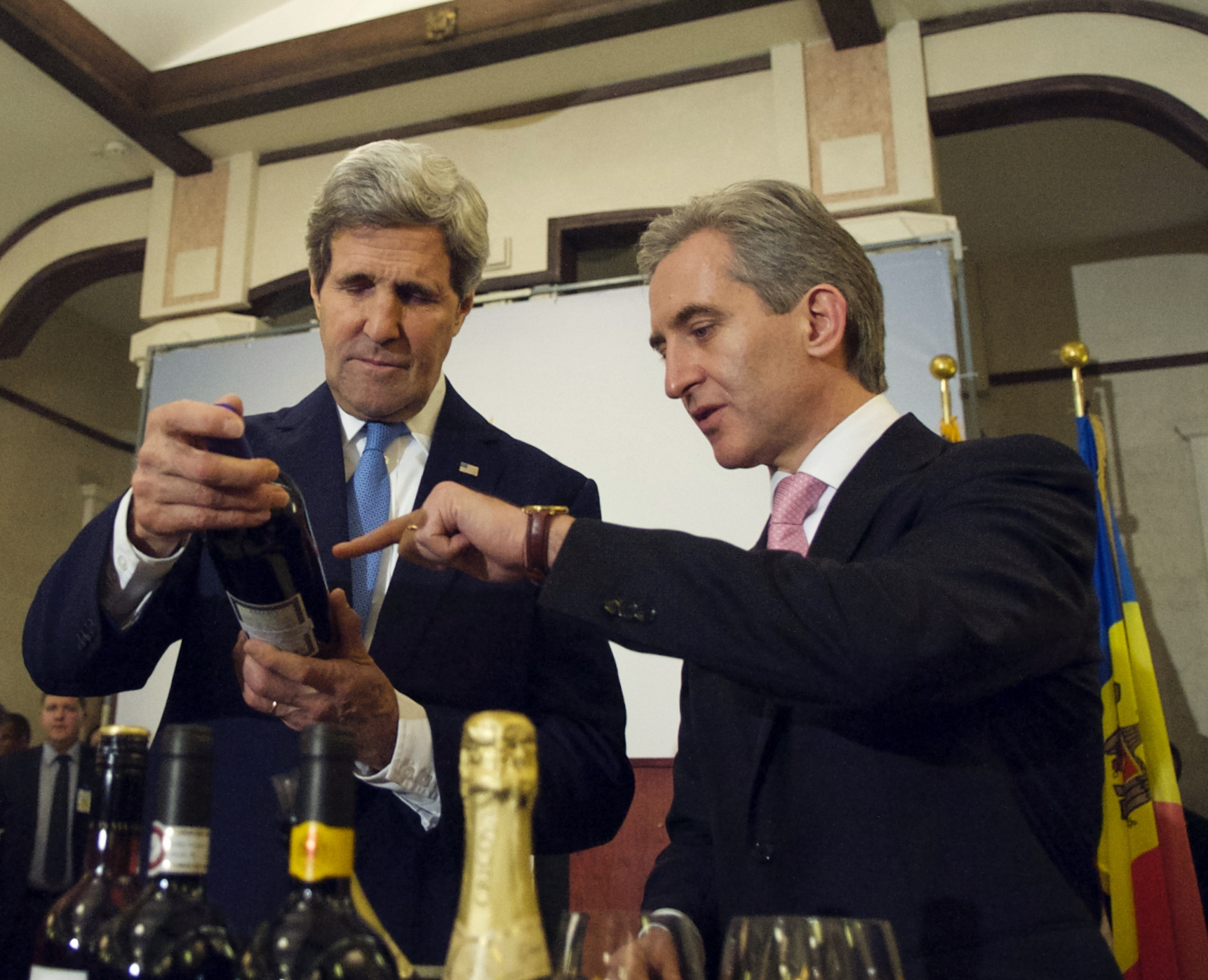 Moldovan Prime Minister Lurie Leanca, right, points out the label of a local wine after he and U.S. Secretary of State John Kerry sampled some local vintages during an economic development event at the Cricova Winery outside Chisinau, Moldova, on December 4, 2013. [State Department photo/ Public Domain] Image cropped to highlight Kerry and Leanca